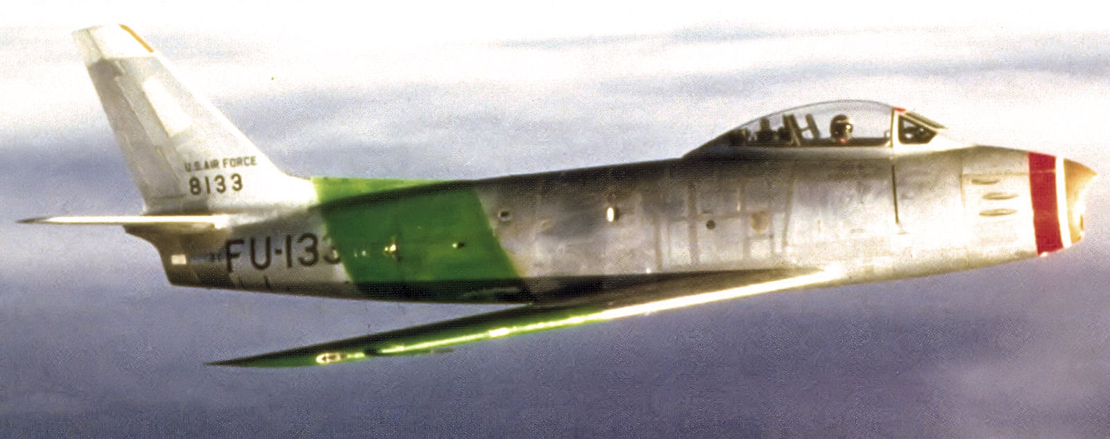 93d Fighter-Interceptor Squadron North American F-86A-5-NA Sabre 48-133 Western Air Defense Force, 34th Air Division, Kirtland AFB NM Aircraft participating in B-36 intercept tests, wide color bands were painted on the fuselage for identification as a test aircraft, October 1951